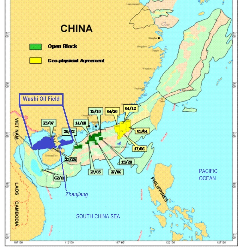 This is a map showing Wushi oil field and other oil blocks off the coast of China